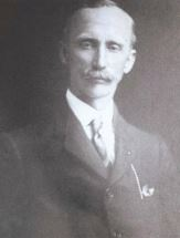 A circa 1915 photo of American golf course architect Devereux Emmet (1862-1934).